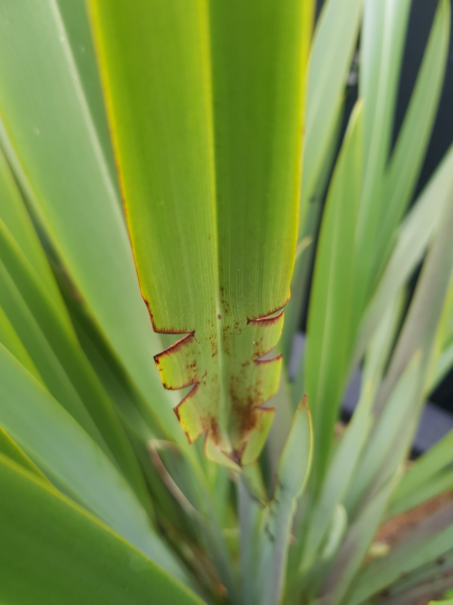 Damage to Phormium tenax flax caused by the larvae of Tmetolophota steropastis. See iNaturalist observation